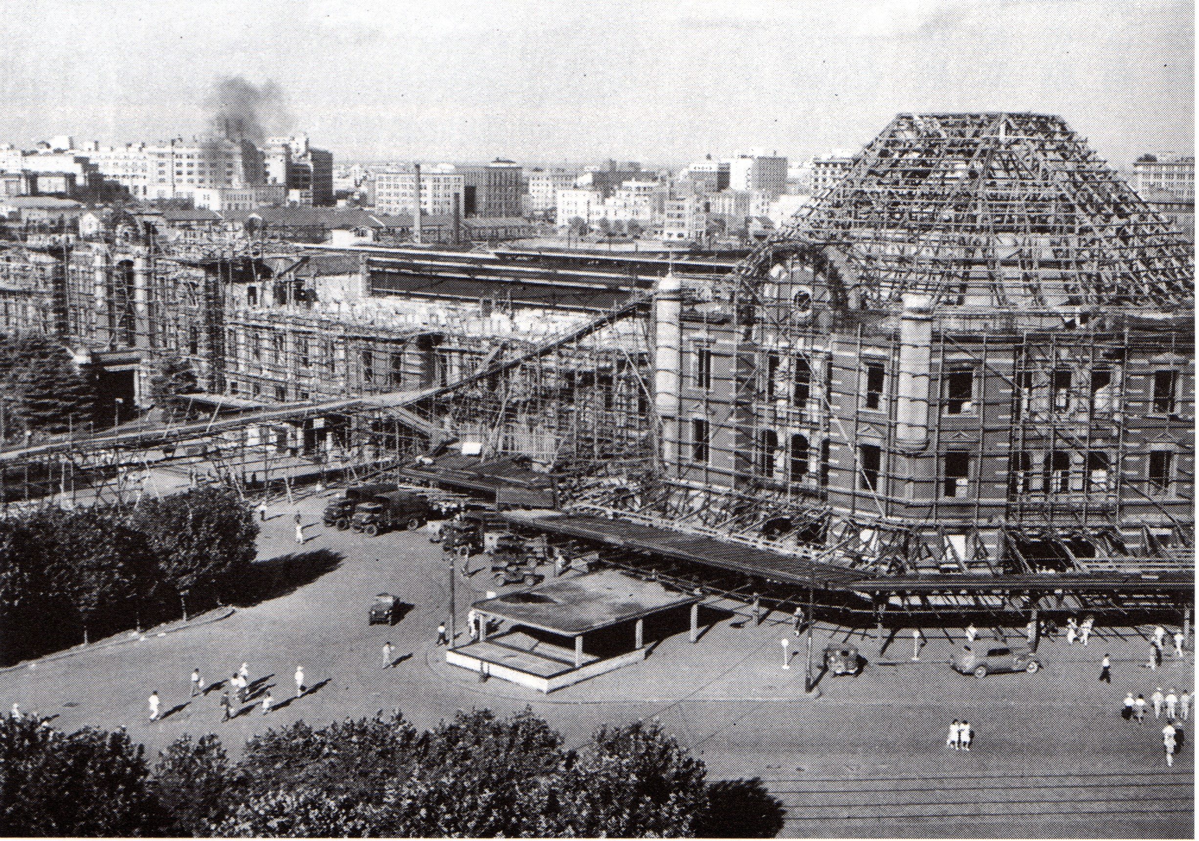 Repair work on ruin of Tokyo Station Marunouchi Building, which was damaged by air raids during WW II.